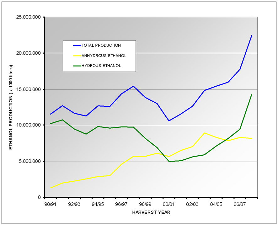 Graph created with public data from União da Indústria de Cana-de-açúcar/UNICA e Ministério da Agricultura, Pecuária e Abastecimento/MAPA. Available at UNICA's website Created with Excel and converted to PNG with Photoshop Elements